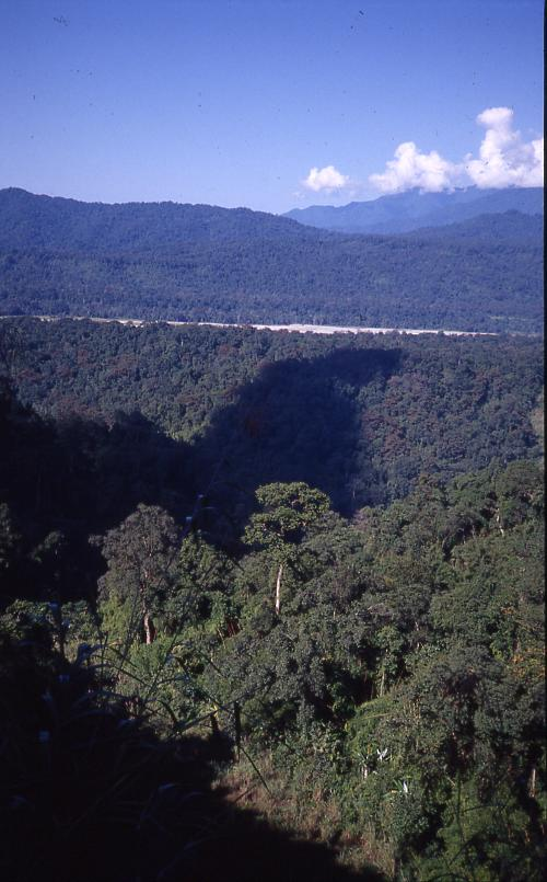 View from the park Namdapha